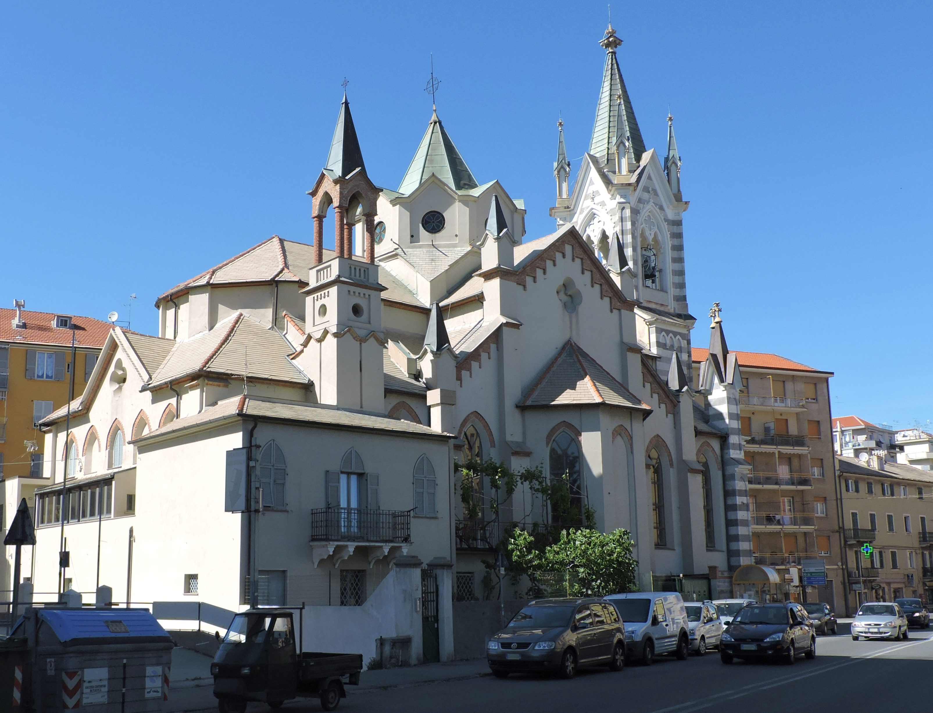 Zinola (Savona, Italy): Santo Spirito e Concezione church